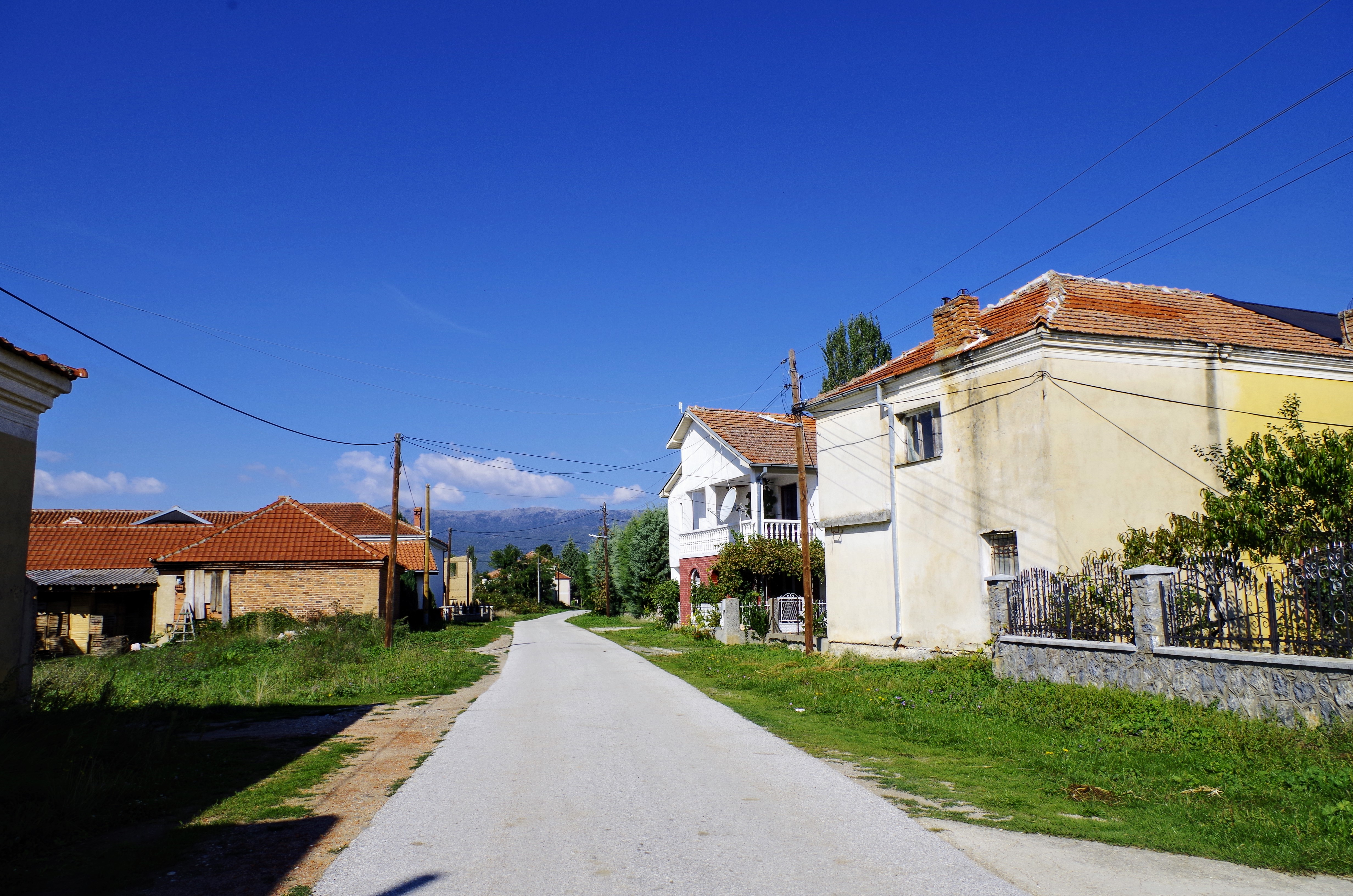 View of the village Dolno Perovo